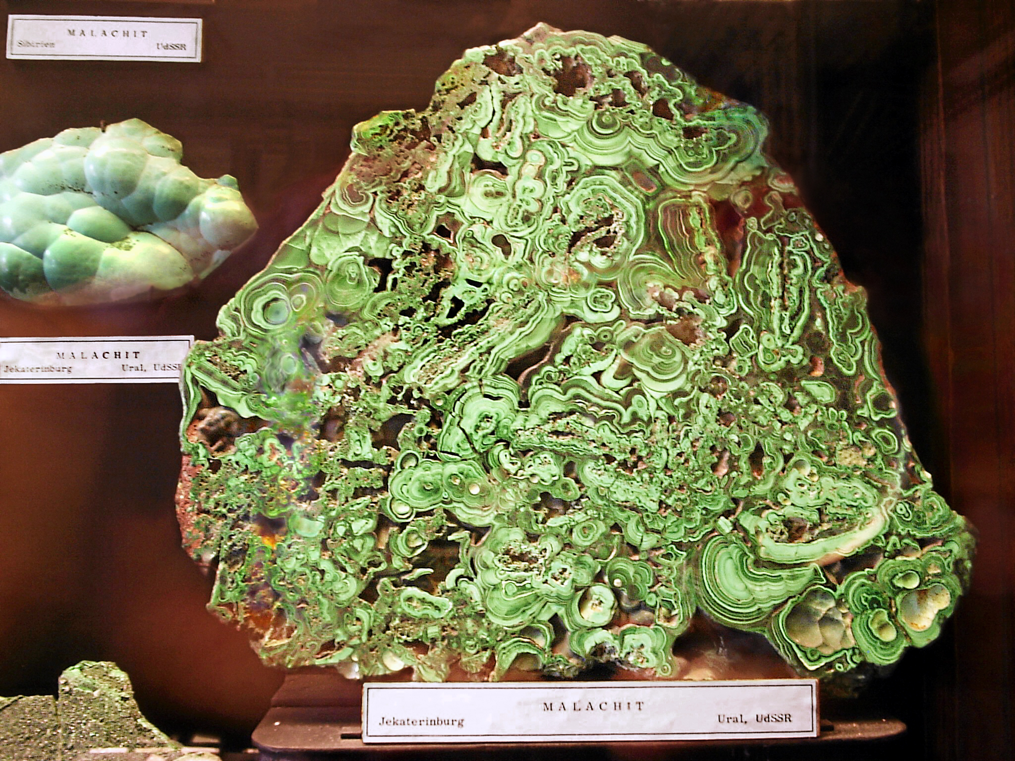 Malachite from Ural, museum of nature in Vienna